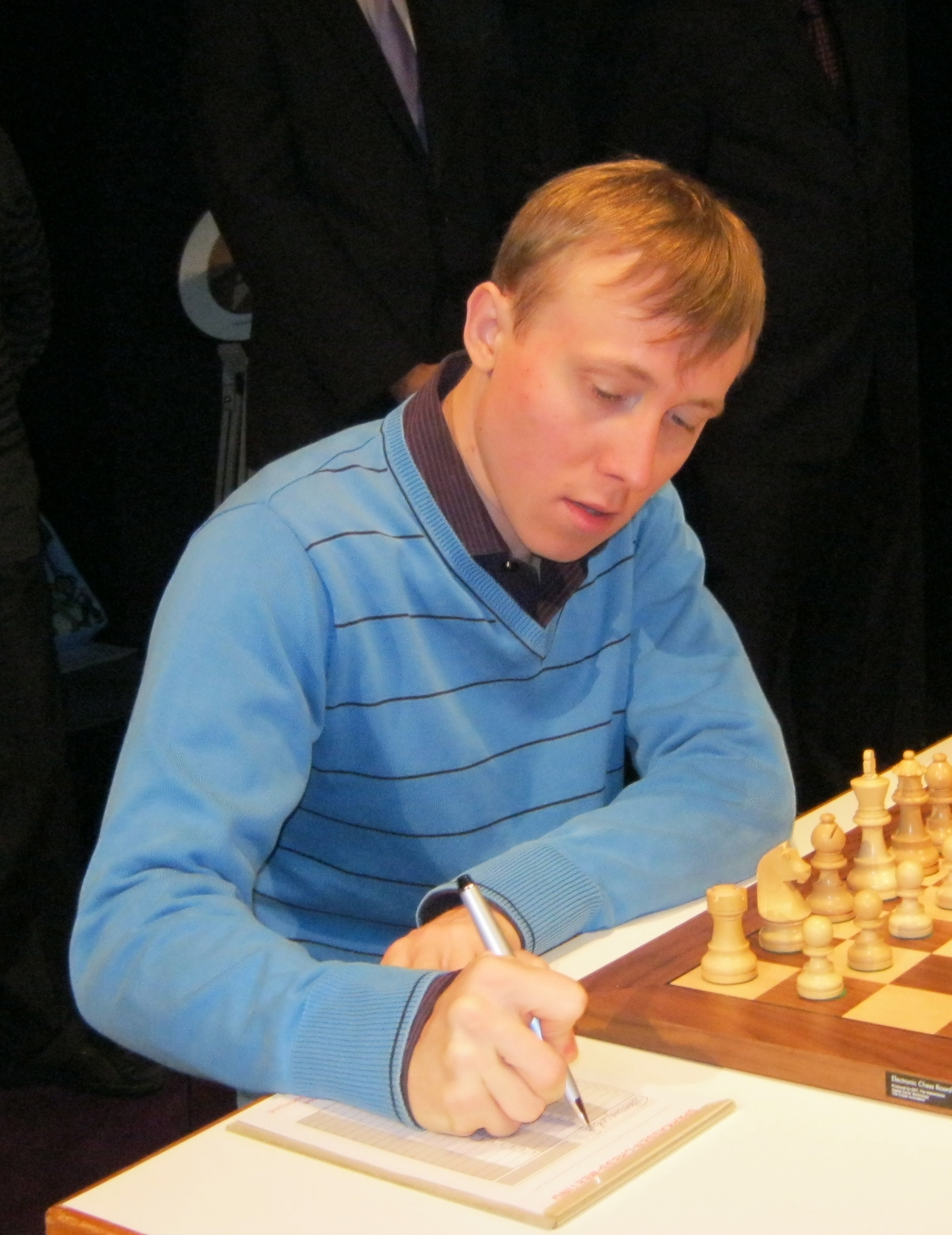 Ruslan Ponomariov, chess grandmaster from Ukraine